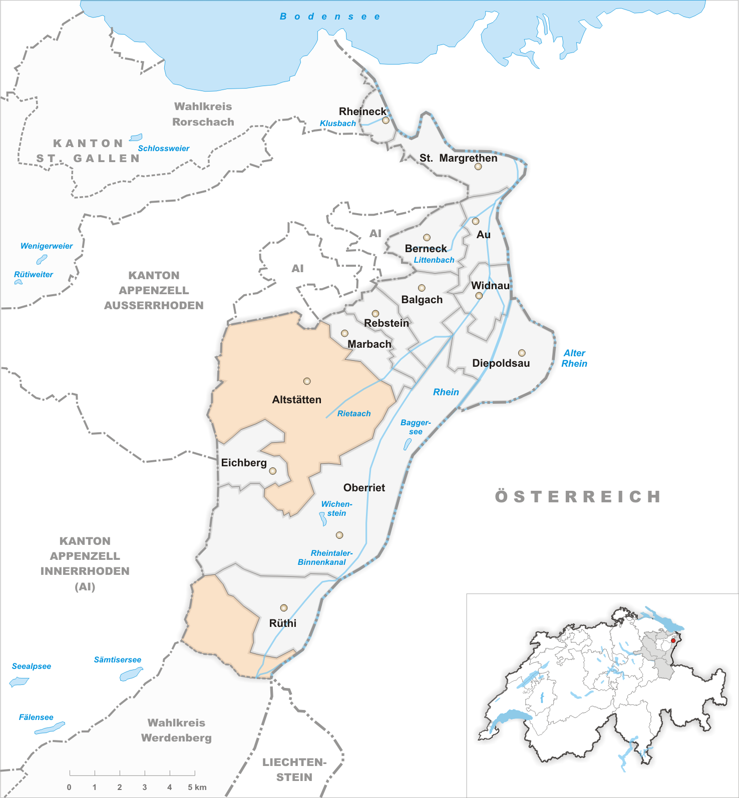 Municipality Altstätten